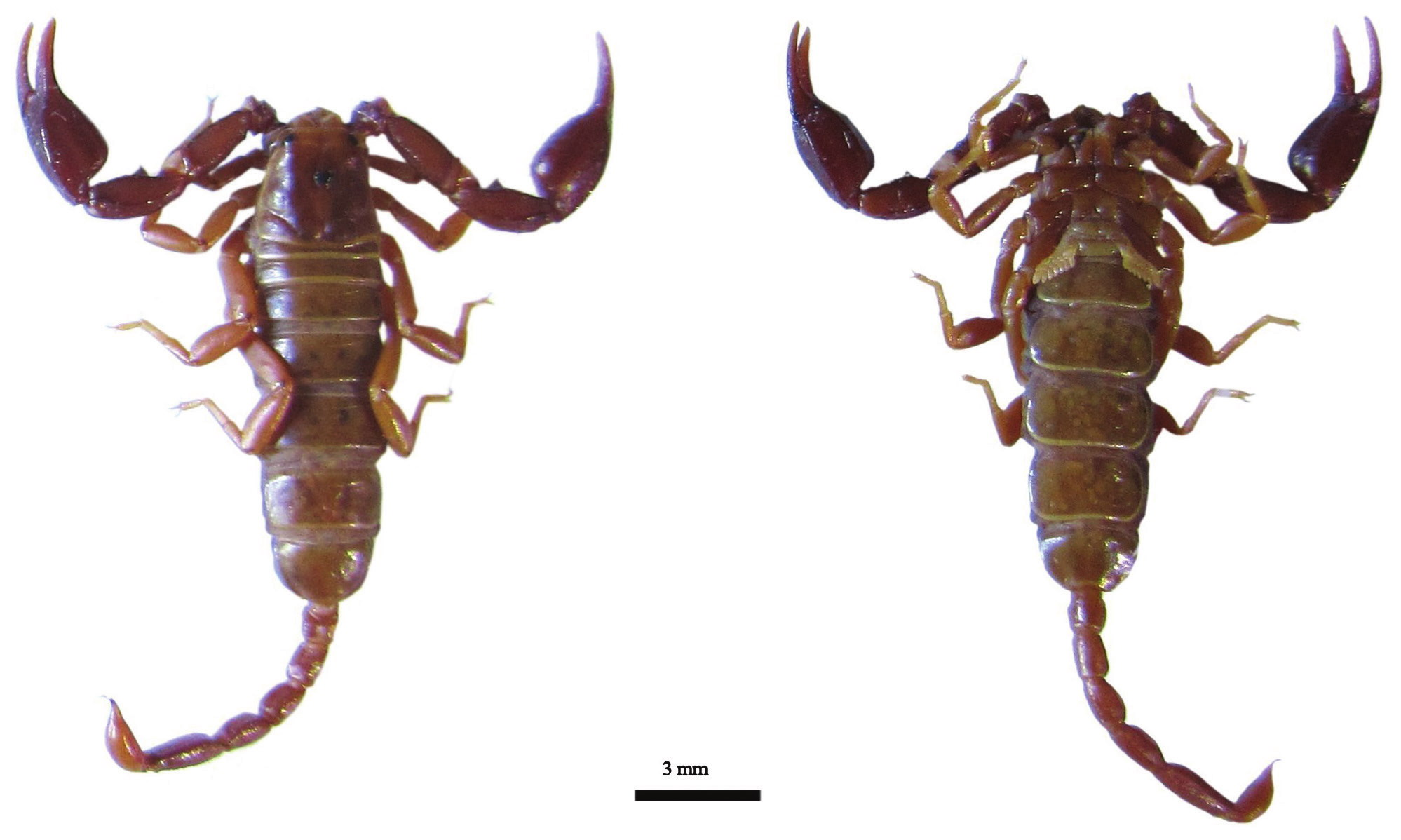 Euscorpius lycius femelle